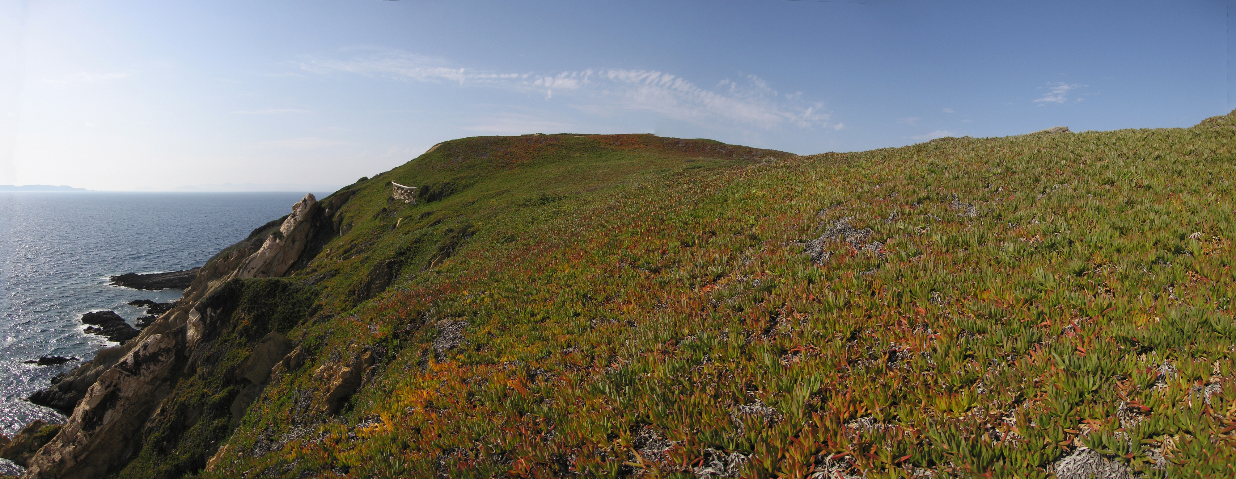 Carpobrotus-invaded area and cliff on Bagaud island